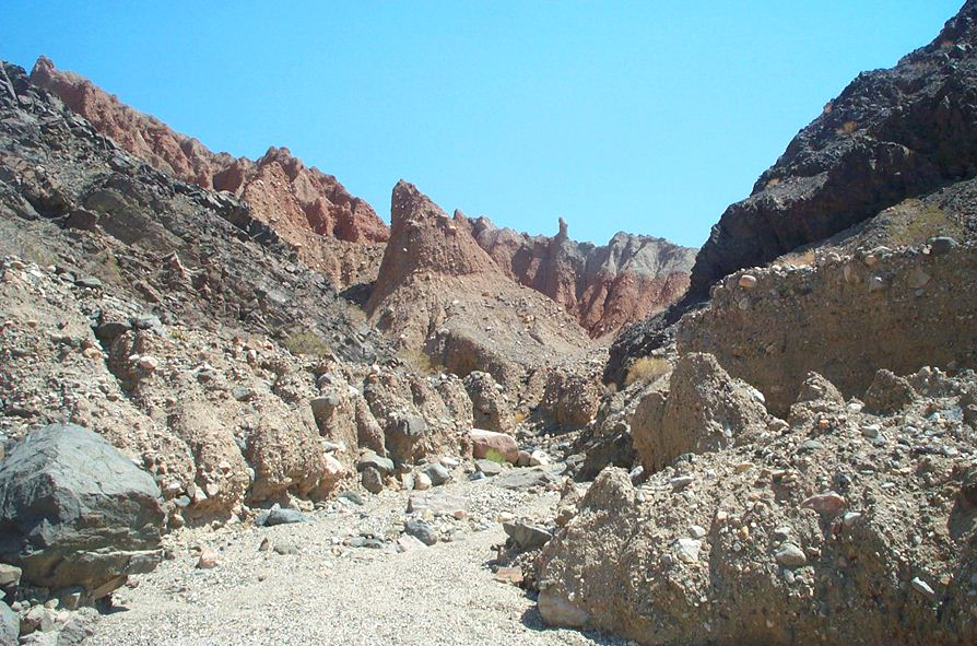 Slot Canyon in the Afton Canyon Natural Area — in Afton Canyon of the Mojave Desert. Seasonal and occasional 'tributary' of the Mojave River.